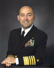 Admiral James G. Stavridis, USN Commander, United States Southern Command